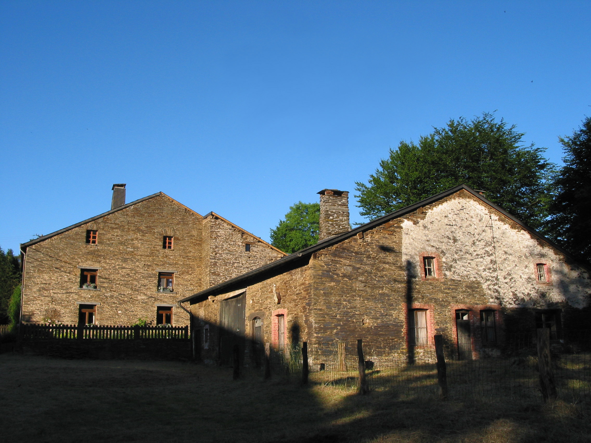 Cugnon (Belgium), typical old farm built in shist stones.